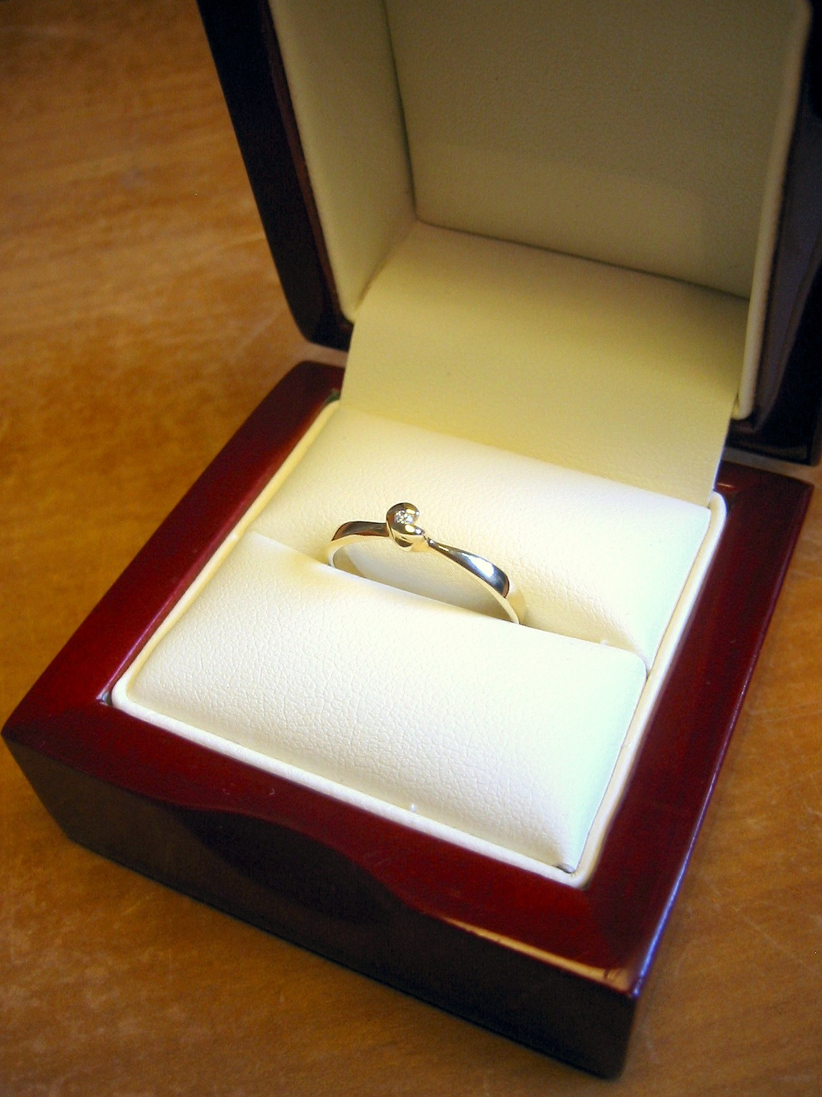 A promise ring gold (750) from italy with a brilliant 0,02 carat in a red casket.